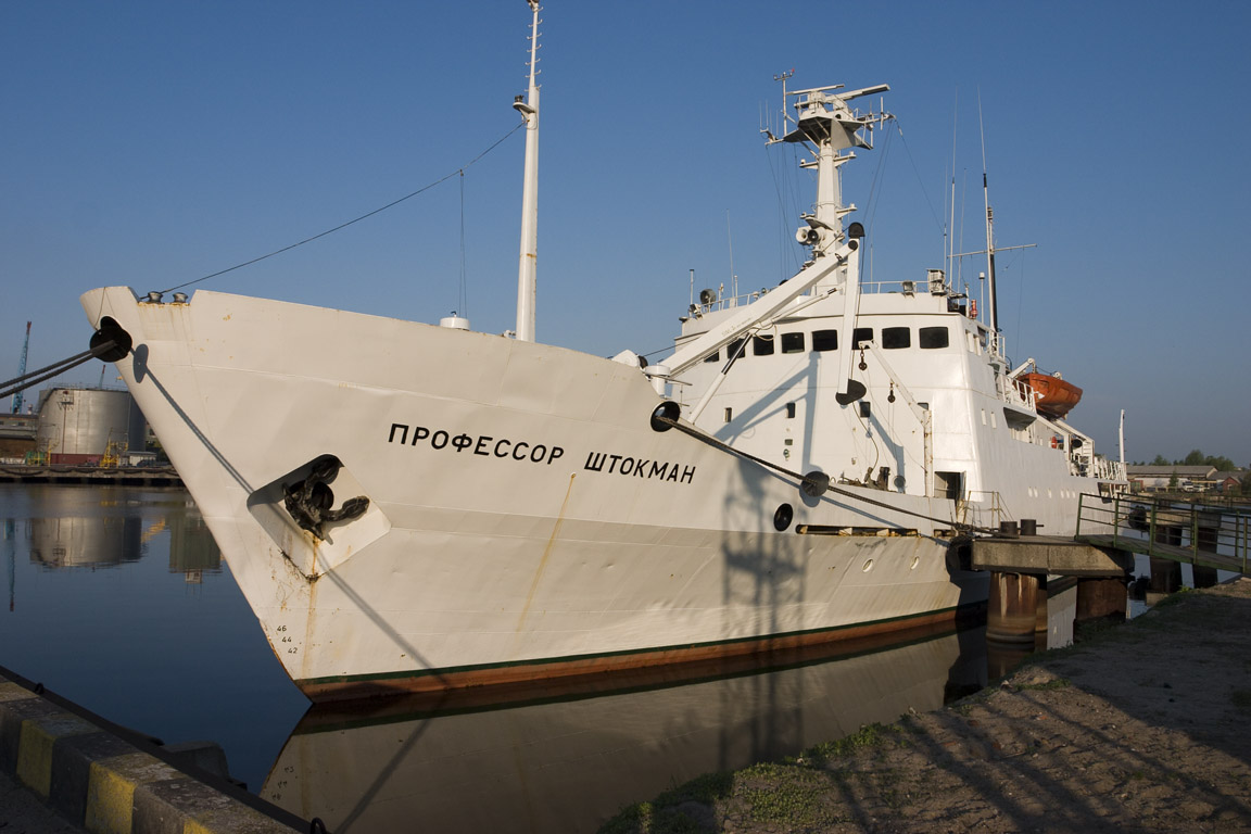 Professor Shtokman in Kaliningrad IMO Number: 7703027 MMSI Number: 273416400 Callsign: UAUQ Length: 68 m Beam: 12 m